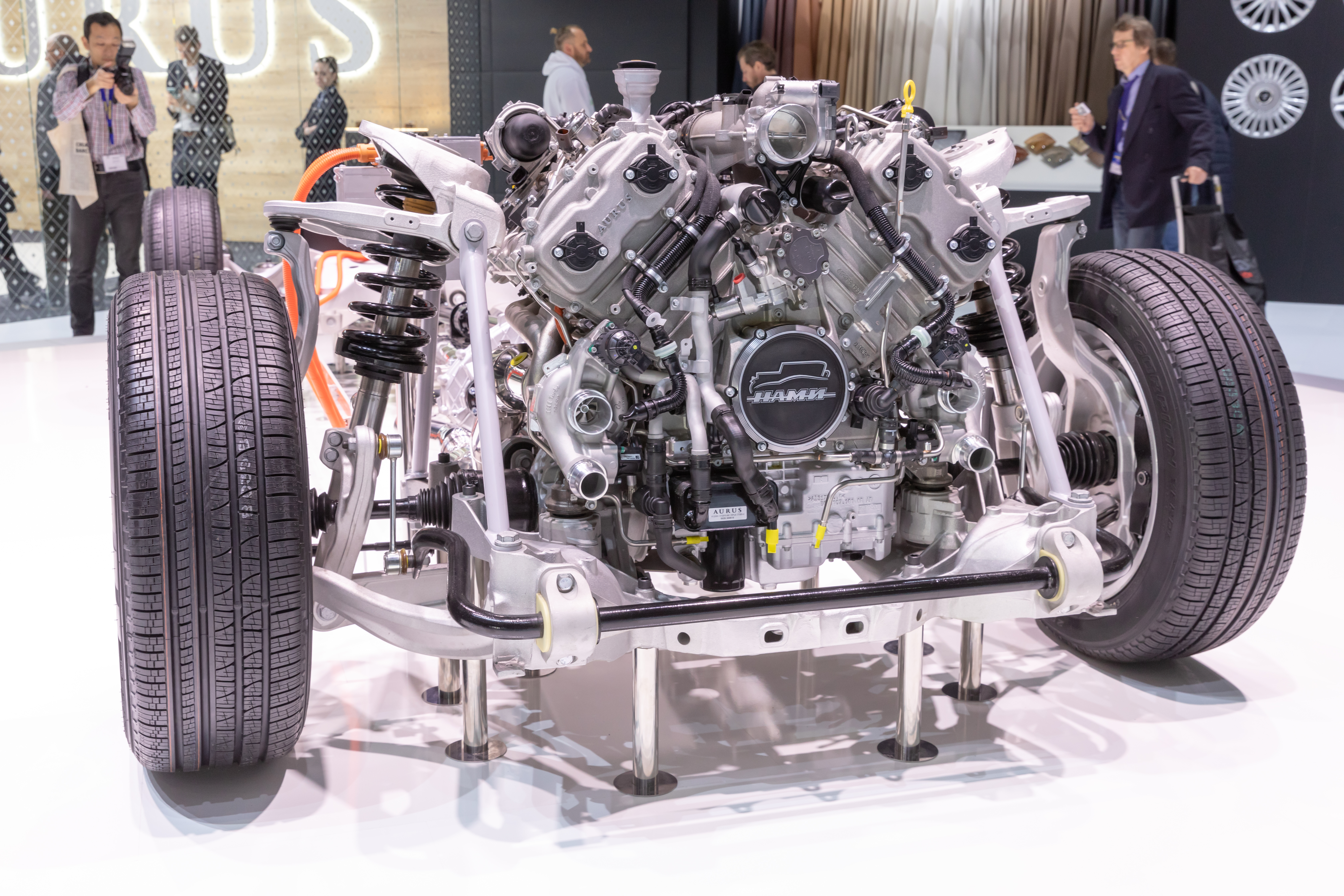 Drivetrain and suspension display of an Aurus Senat at Geneva International Motor Show 2019, Le Grand-Saconnex